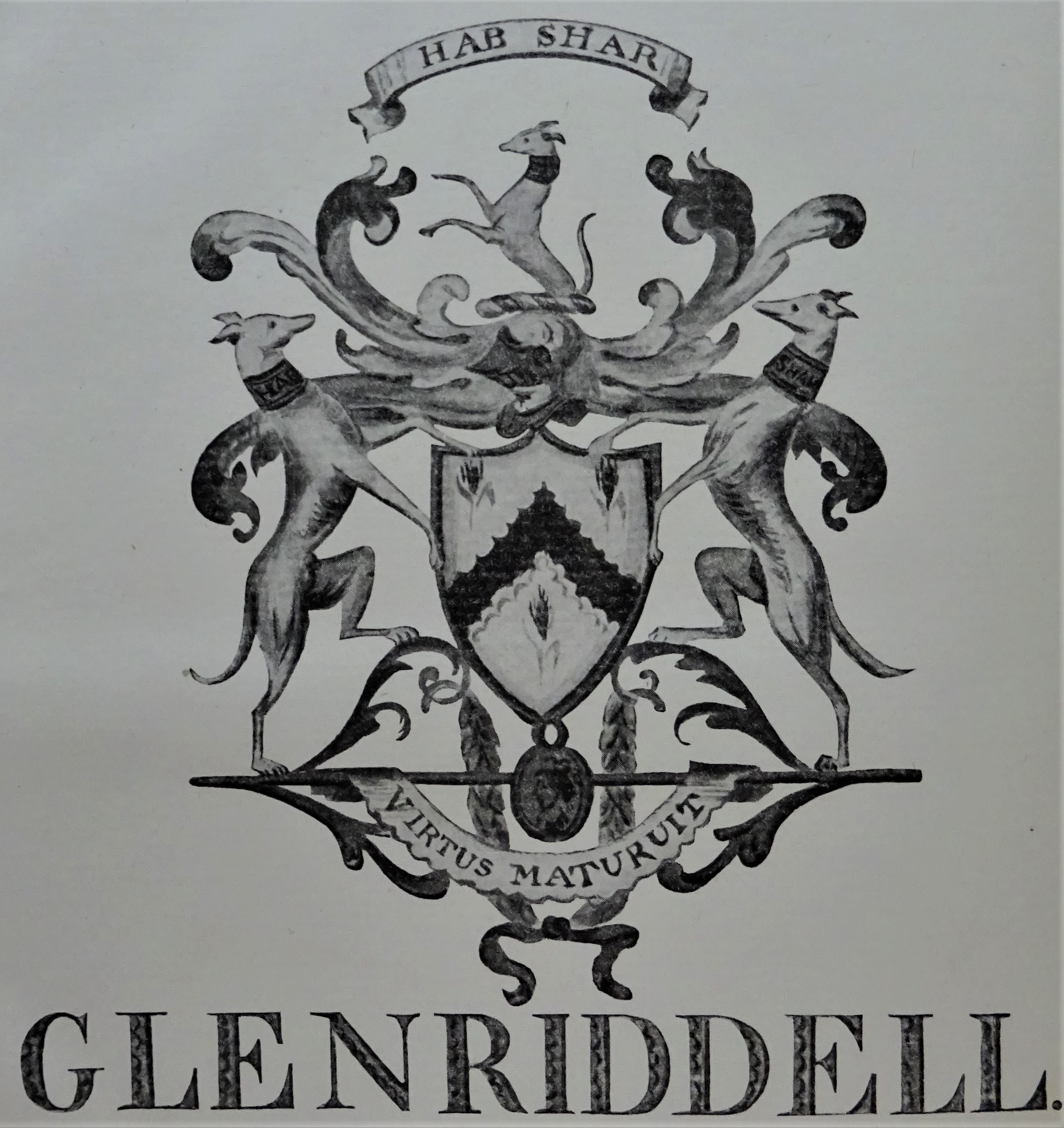 Robert Riddell of Glenriddell (Friars' Carse) coat of arms. 1914 Glenriddell Manuscript facsimile.